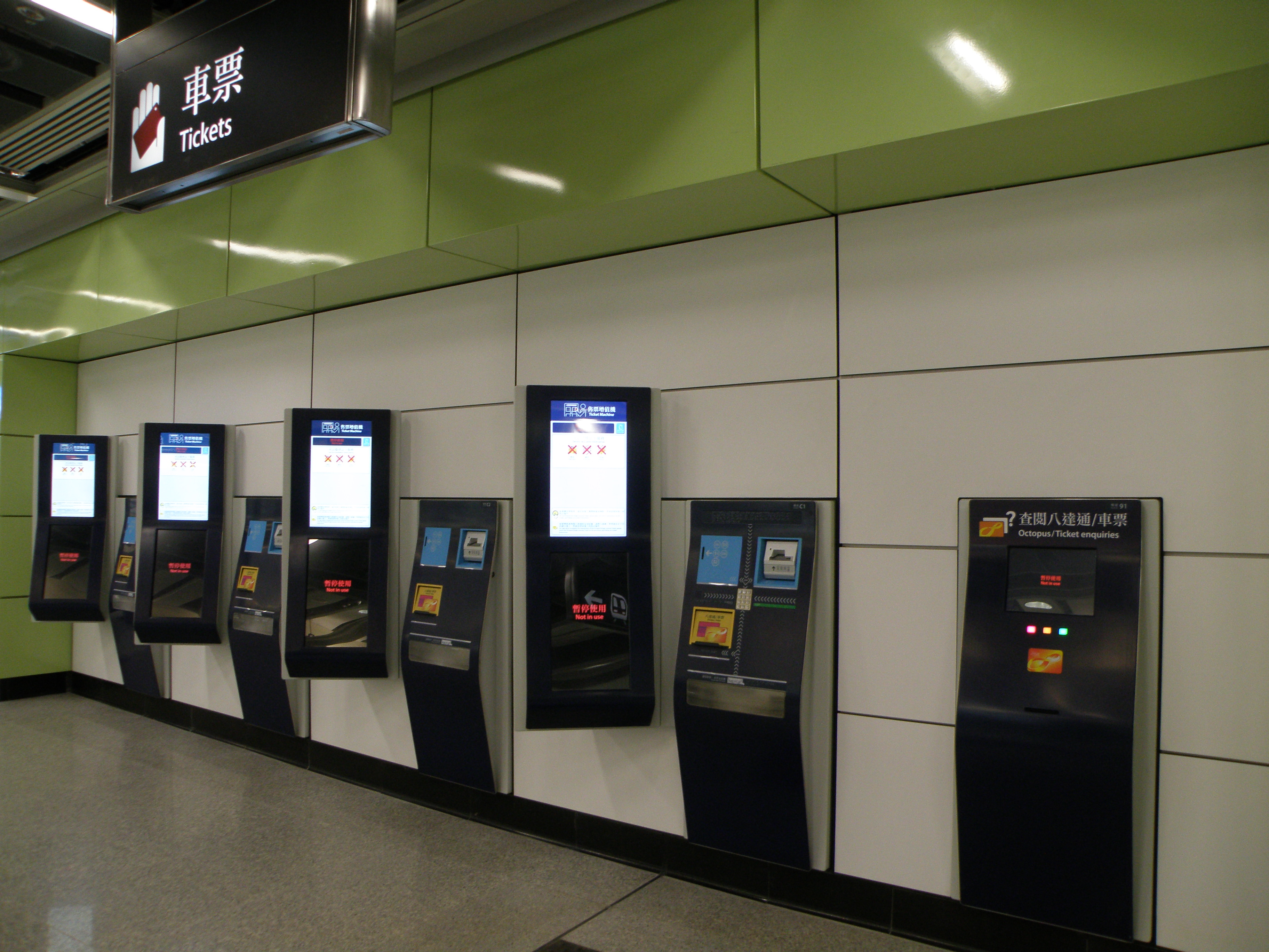 HKU Station ticket machine, Hong Kong.